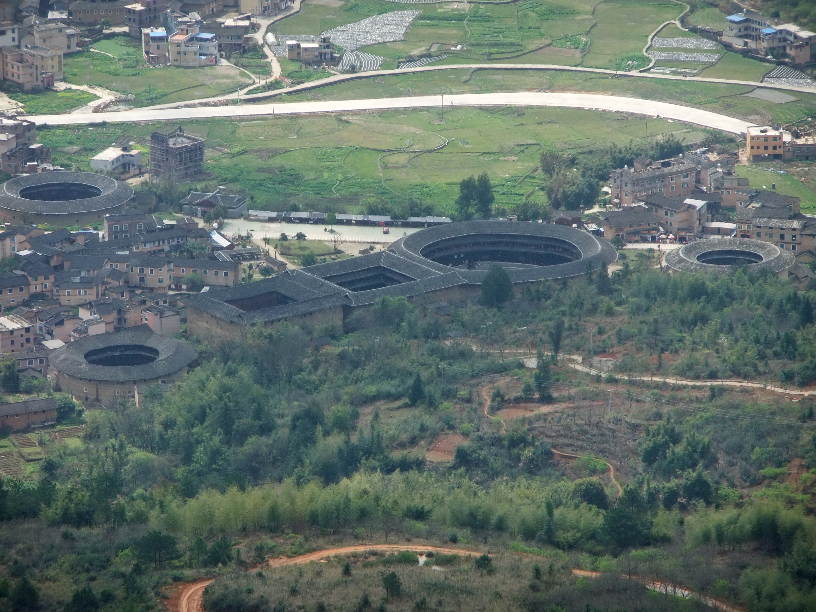 Various parts of Gaotou Township, seen from the top of Jin Mt (above Gaobei Village, NW of town). (Zooming on particular areas, with lots of tulous)